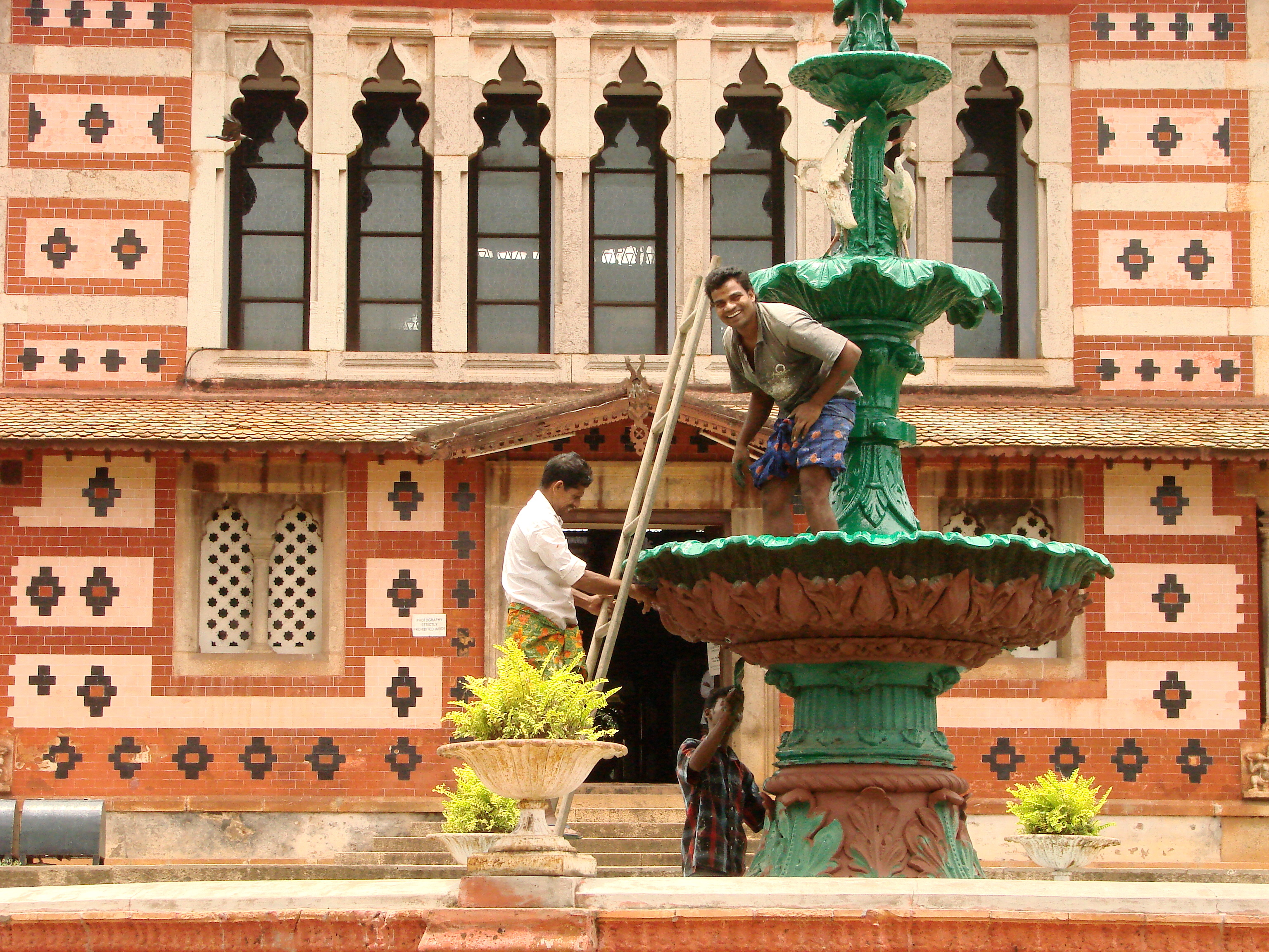 British colonial Indo-Saracenic Revival style architecture of Napier Museum wall on Trivandrum Zoo grounds in Thiruvananthapuram, Kerala, India. August 2008